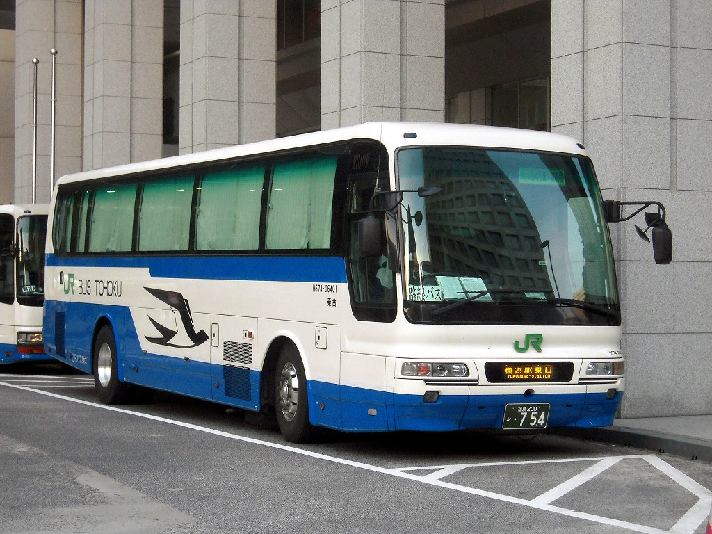 JR bus Tohoku Highwaybus "Dream-Fukushima-Yokohama"